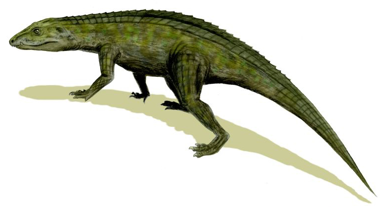 Protosuchus, pencil drawing. Protosuchus was a genus of carnivorous crocodylomorph from the Early Jurassic.